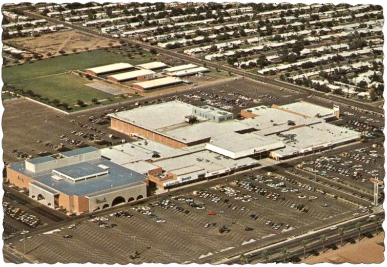 Tri City Mall, Mesa AZ 1960s